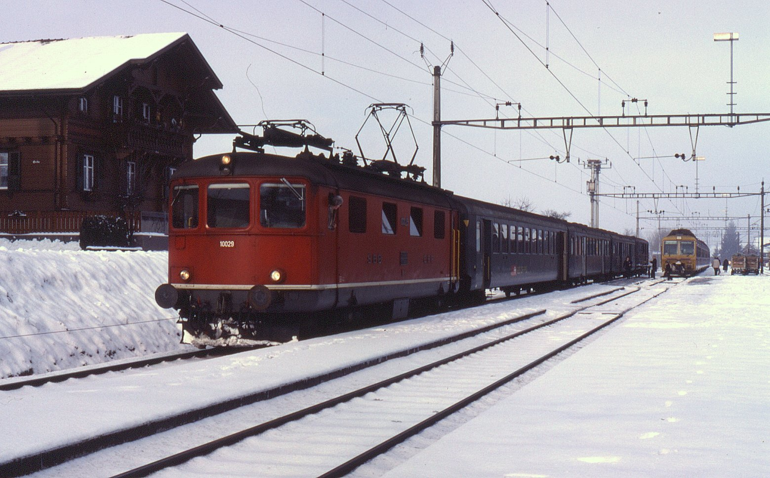 The first batch of Re4/4s built in the late 1940s for SBB have seen several liveries including dark green, red and cream as well as red as seen here. Taken on 10 February 1991 at Stein am Rhein, 10029 is seen on on a local passenger working.